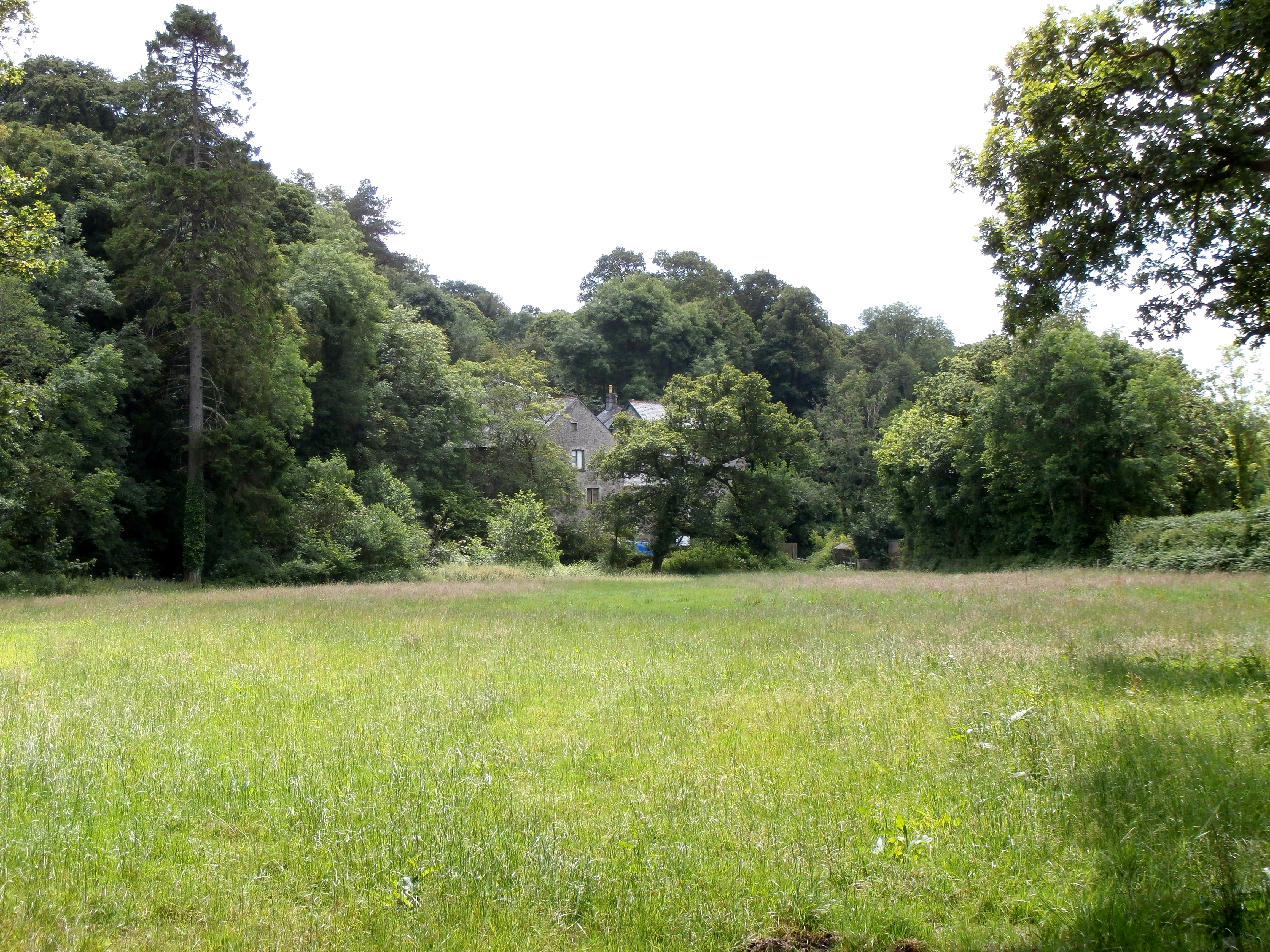 Loughtor Mill, Sparkwell, Devon. In 2014 part of the Newnham Park estate, formerly in the historic parish of Plympton St Mary.